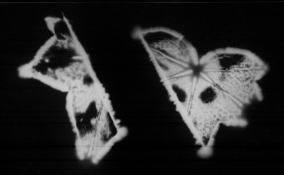 aura, kirlian photo, leaf